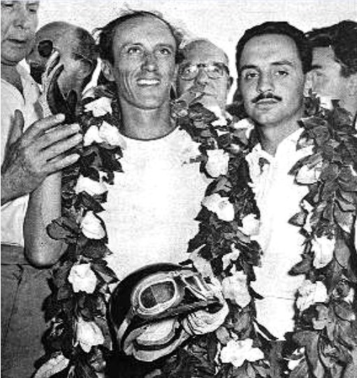 Argentina. Enrique Díaz Sáenz Valiente and José María Ibánez. Winners of the 1000 km of Buenos Aires. 1955. Car race.